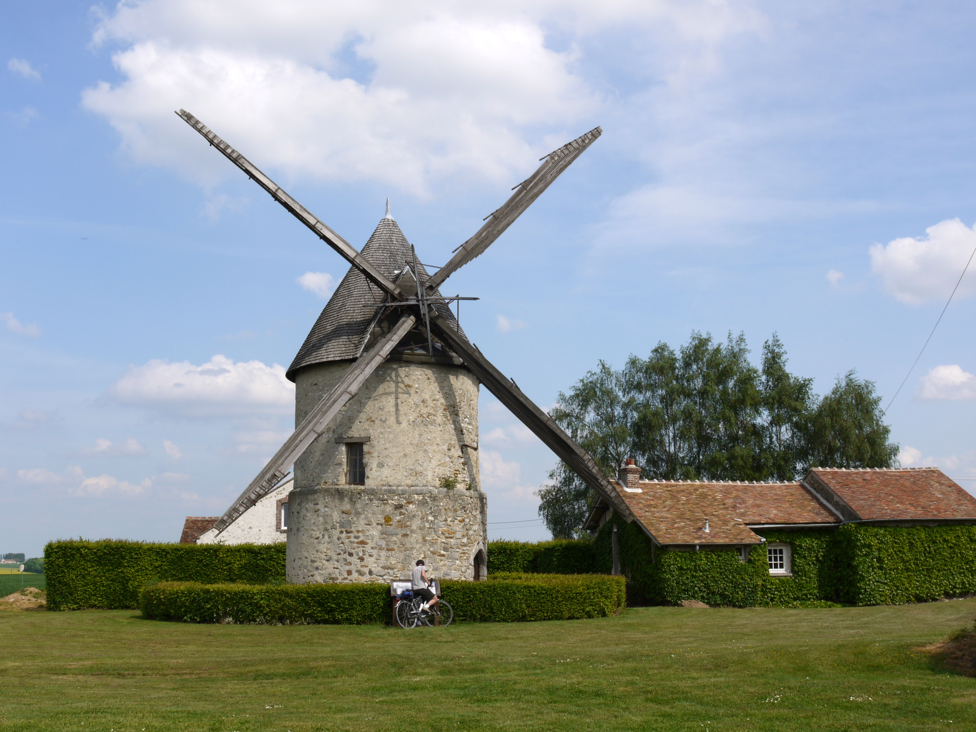 Windmill Choix near Gastins, Seine et Marne, France.